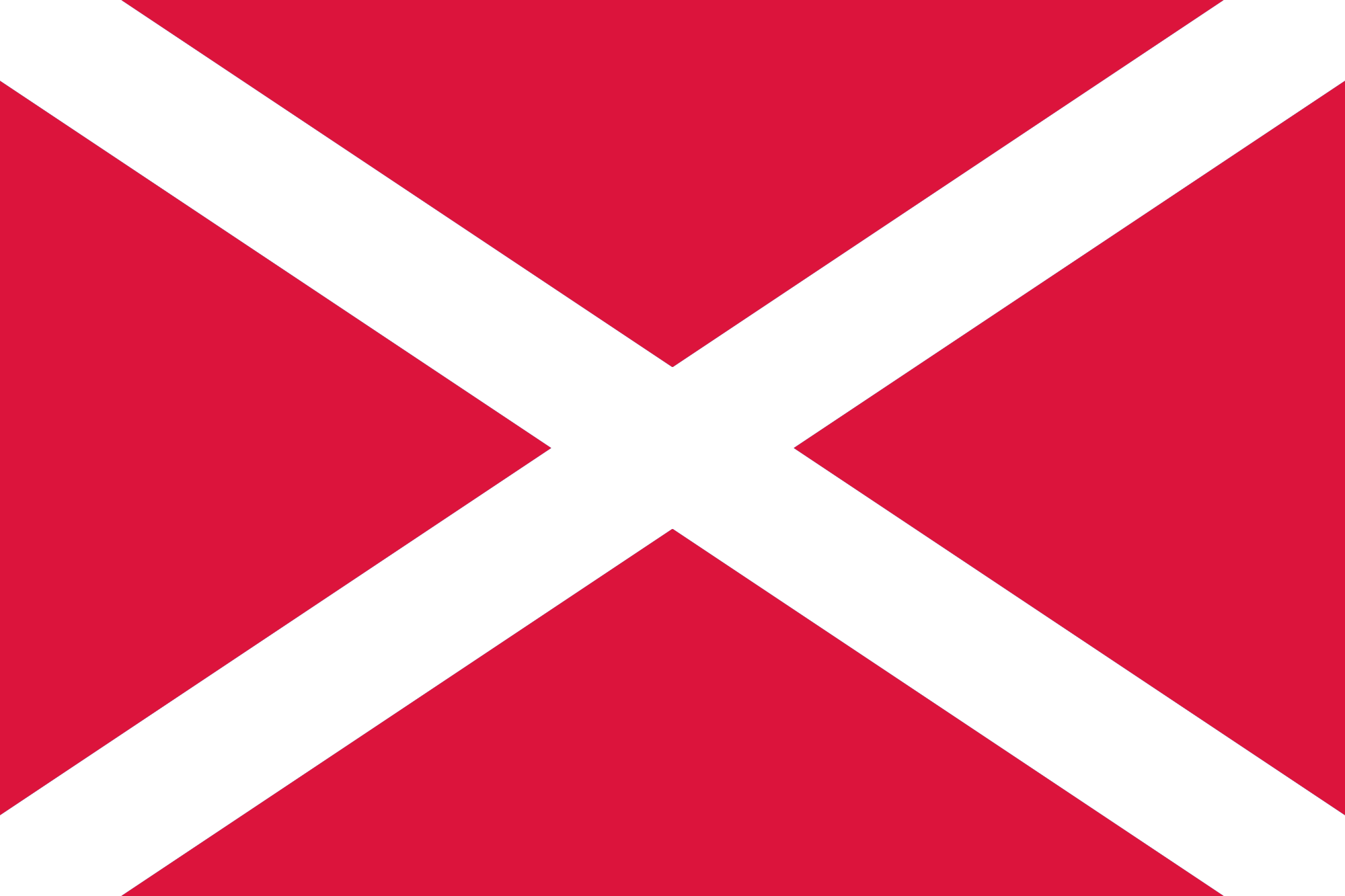 Presumed flag of Semirechye cossack host